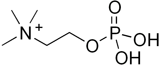 chemical structure of phosphocholine